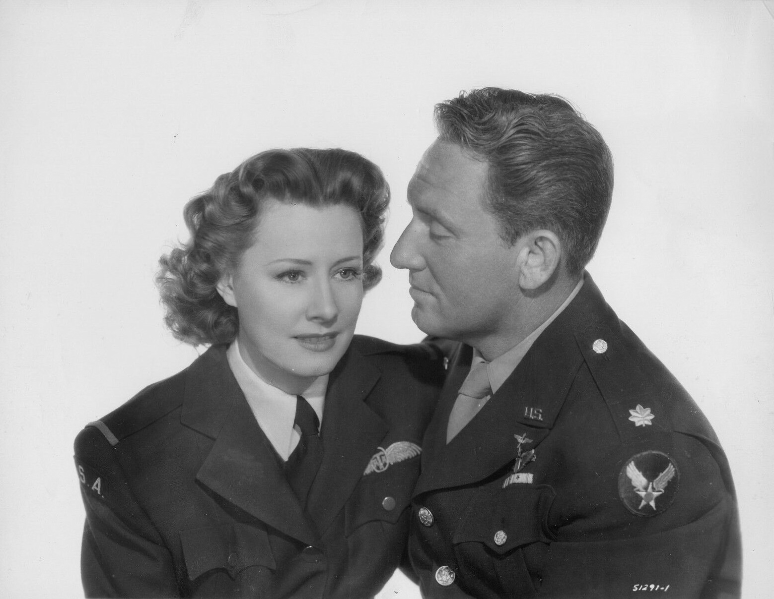 Irene Dunne & Spencer Tracy in the American film A Guy Named Joe (1943). See also film still. No copyright notice.